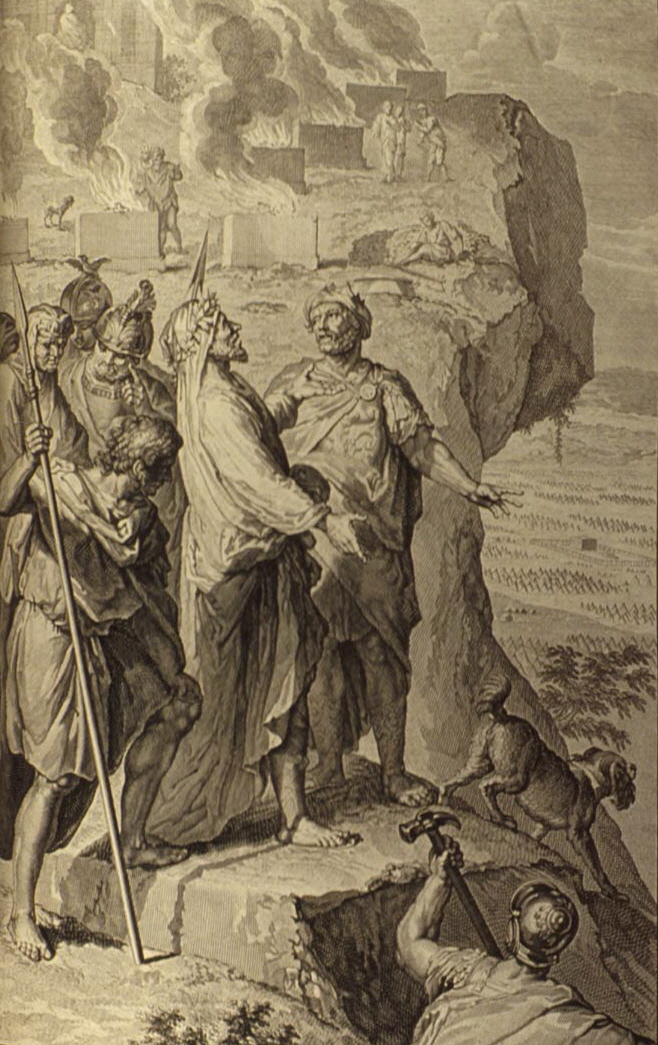 Balaam blessing the Israelites, as in Numbers 24:1-5, 10-13, illustration from the 1728 Figures de la Bible; image courtesy Bizzell Bible Collection, University of Oklahoma Libraries